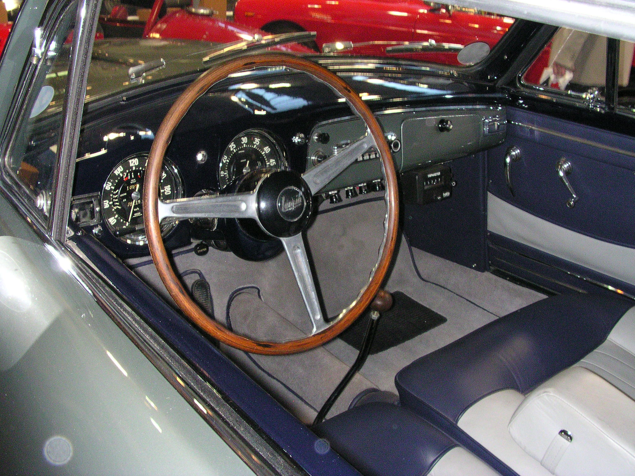 Essen Techno-Classica 2007, Lancia Aurelia B20 GT, 6th series, 1958. The car features a light alloy 60° V6 engine and a transaxle gearbox. The Aurelia B20 was build from 1950 to 1958, the 6th series wsa the last model.